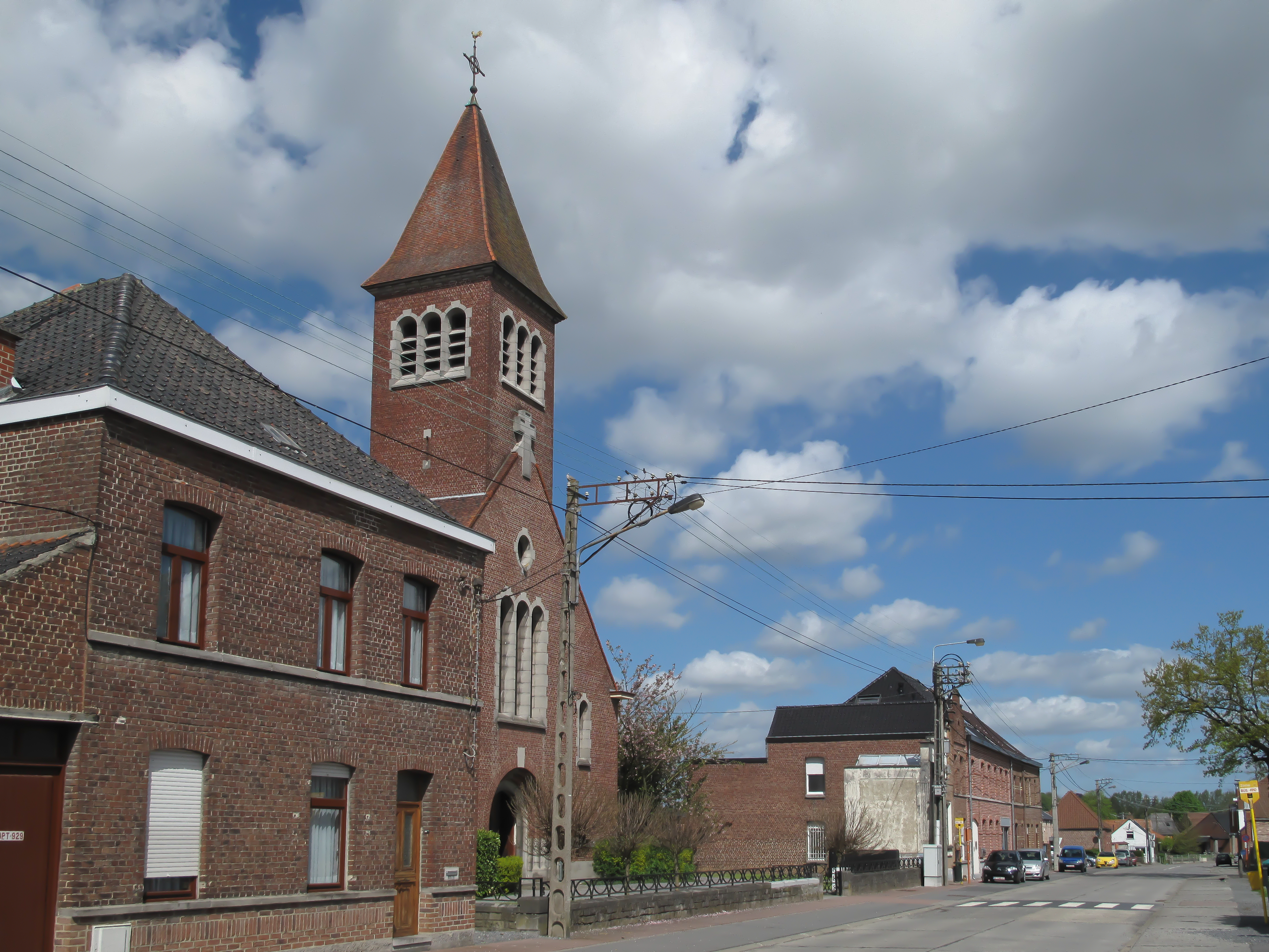 Péronnes, church